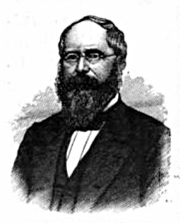 Richard Bennett Carmichael, US Representative from Maryland